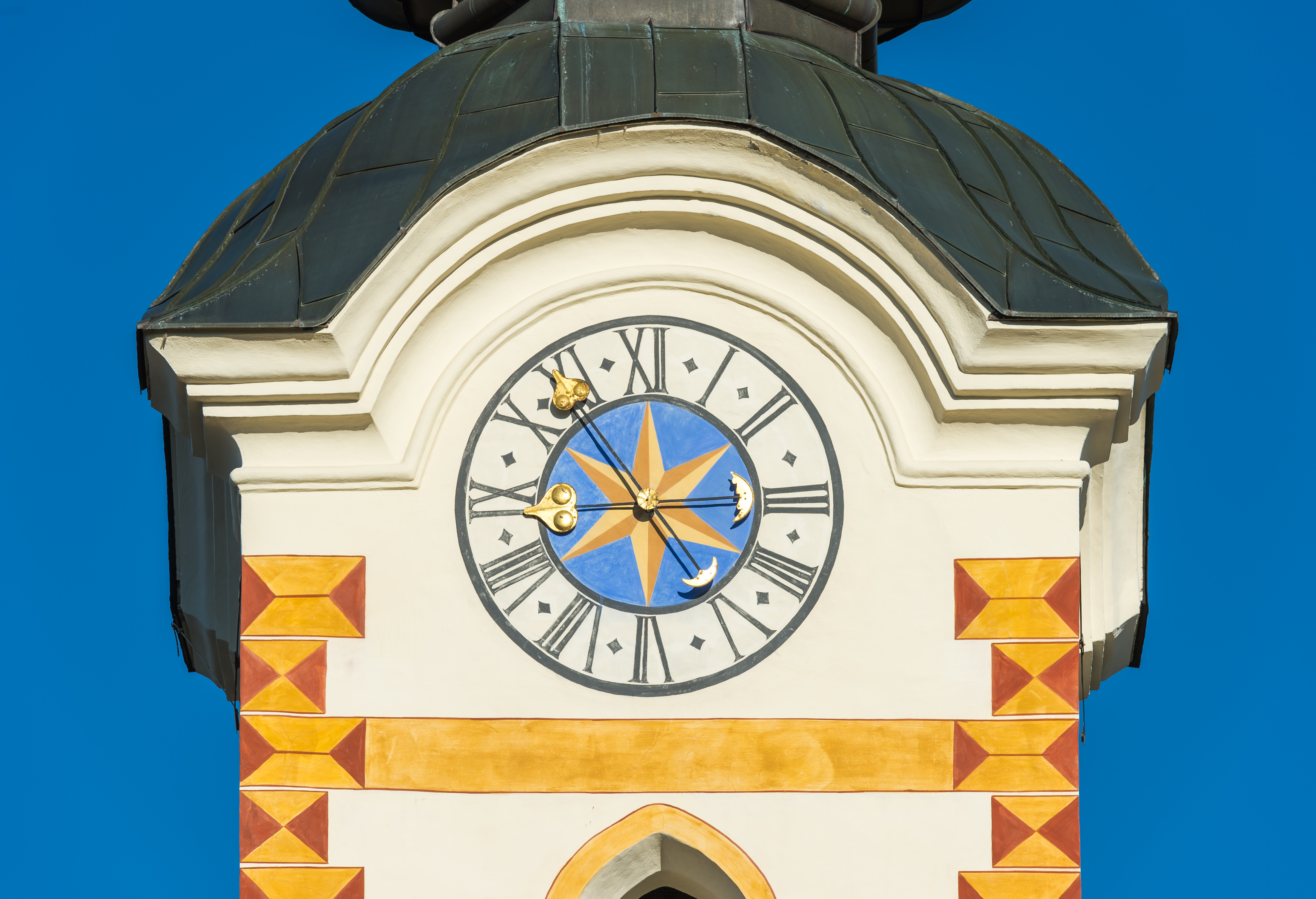 Church clock of the subsidiary church Saints Philipp and Jakob in Sittich, municipality Feldkirchen, district Feldkirchen, Carinthia, Austria, EU